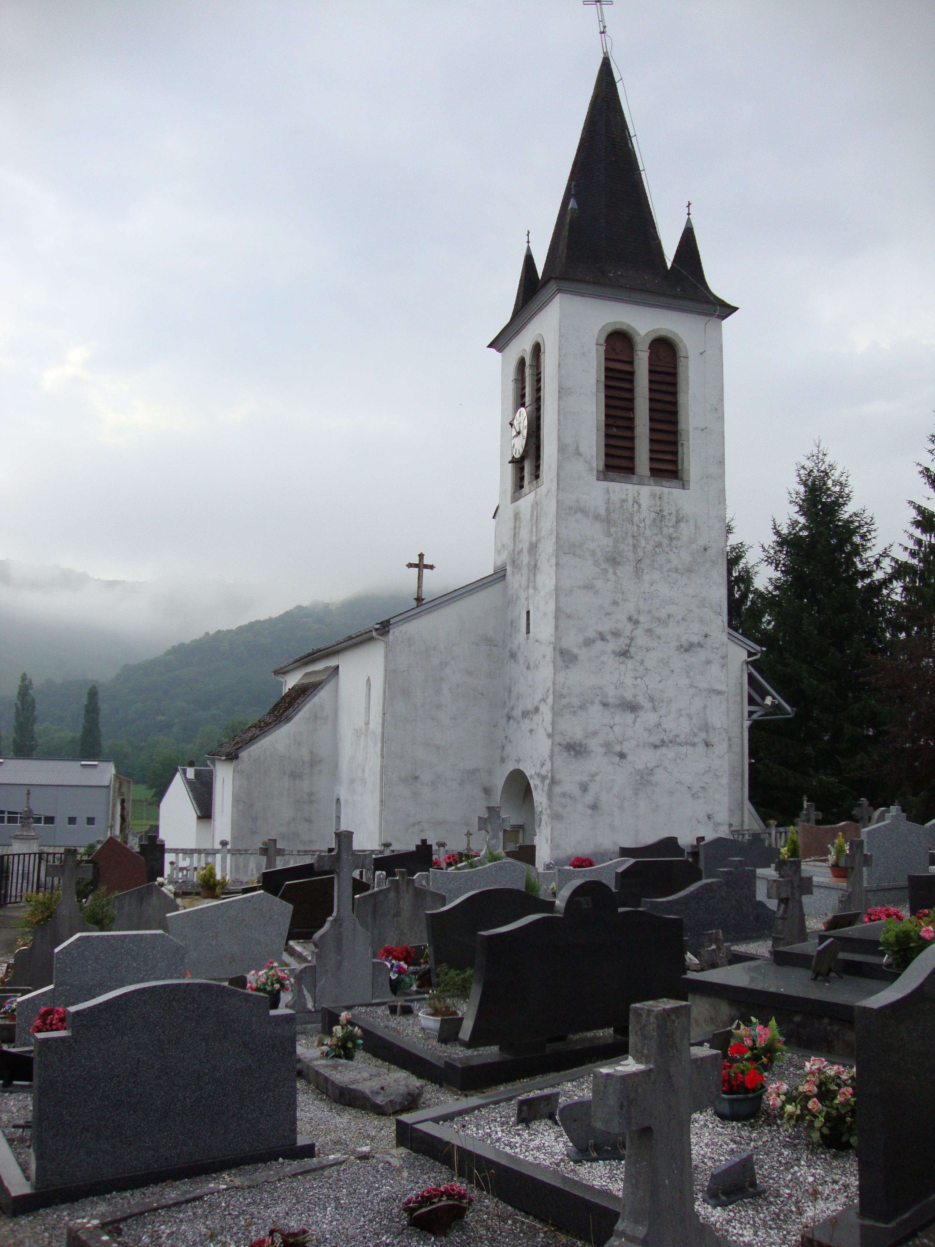 Garindein (Pyr-Atl, Fr) church and part of the churchyard